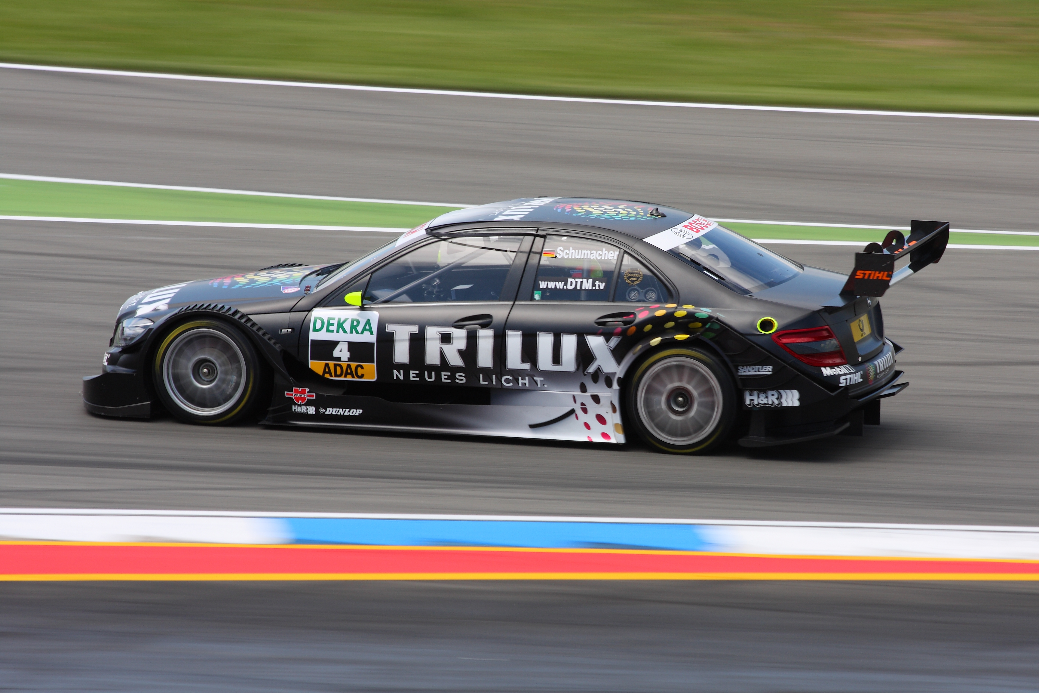 DTM car Mercedes-Benz Season 2009 (C-Class, W204), Ralf Schumacher (driver))